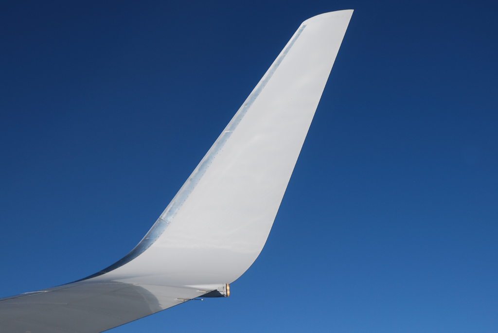 Lauda Air Boeing 737-800 Winglet (OE-LNR)